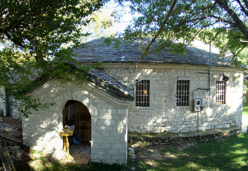 The southern entrance of the Dormition of Theotokos; Kastri, Evrymenes.The temple was built around 1800-1850, thus it is PD by age.